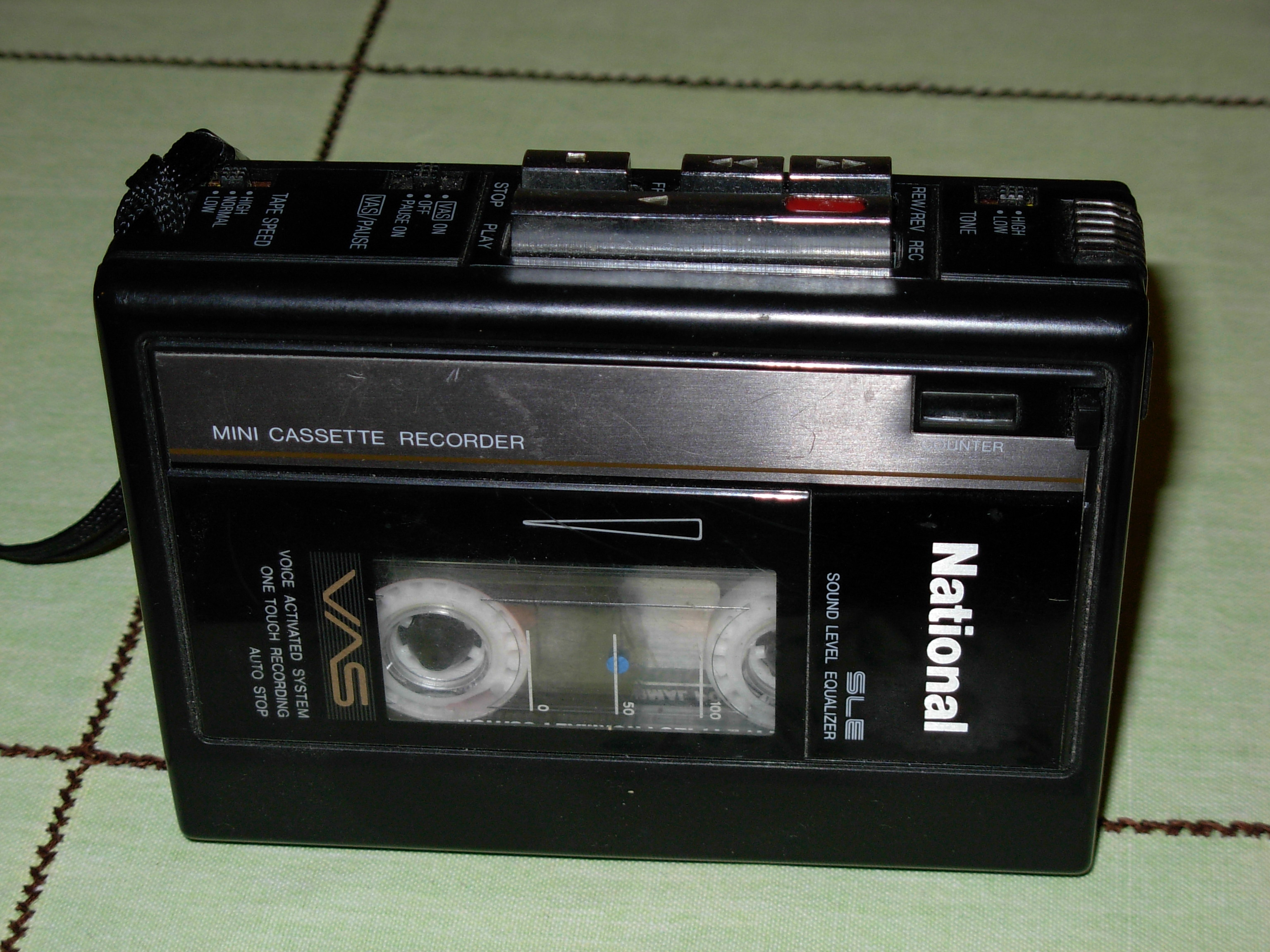 National Cassette recorder/Dictaphone. Photo by myself.